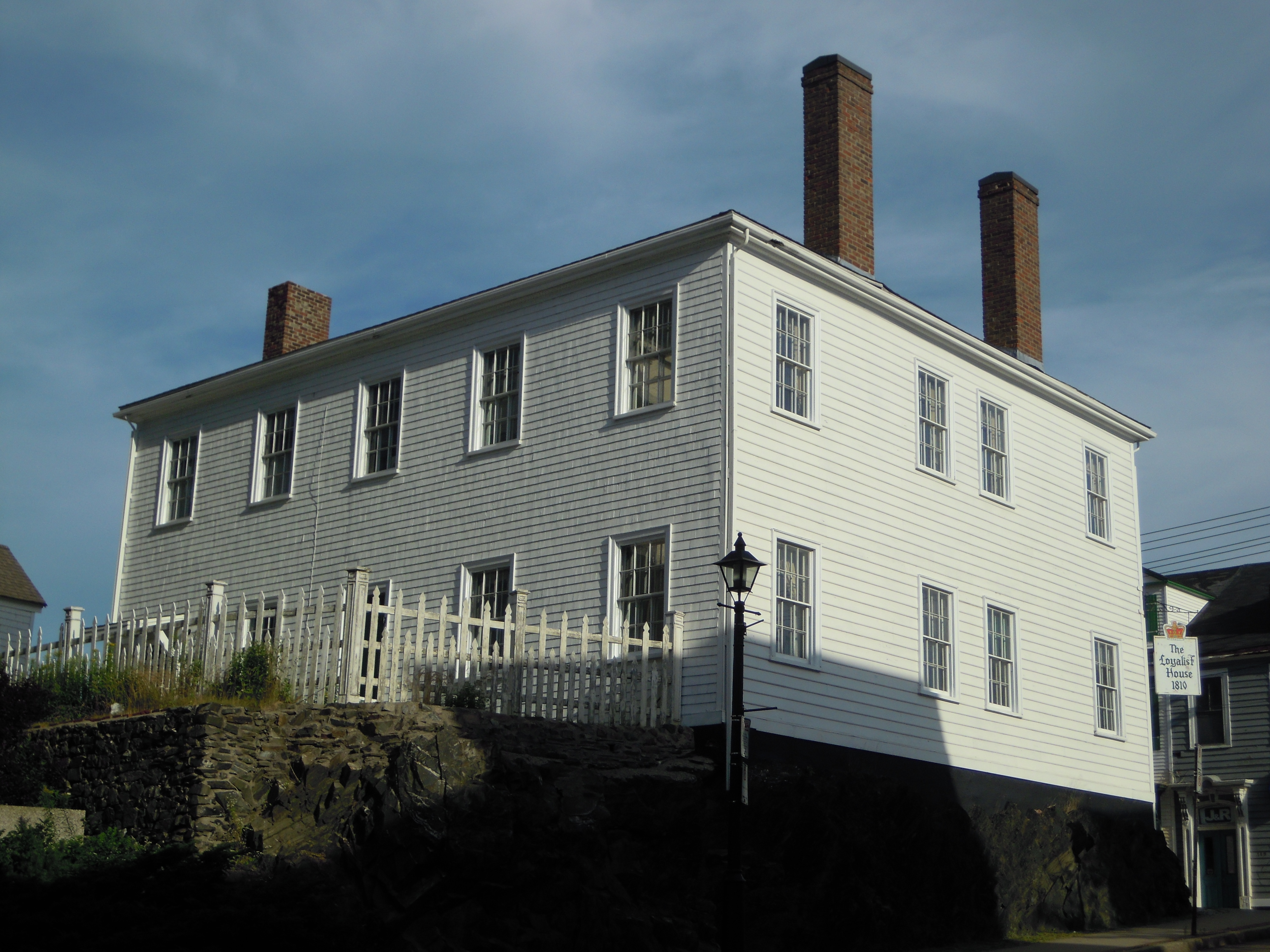 Loyalist House, Saint John, New Brunswick, Canada.